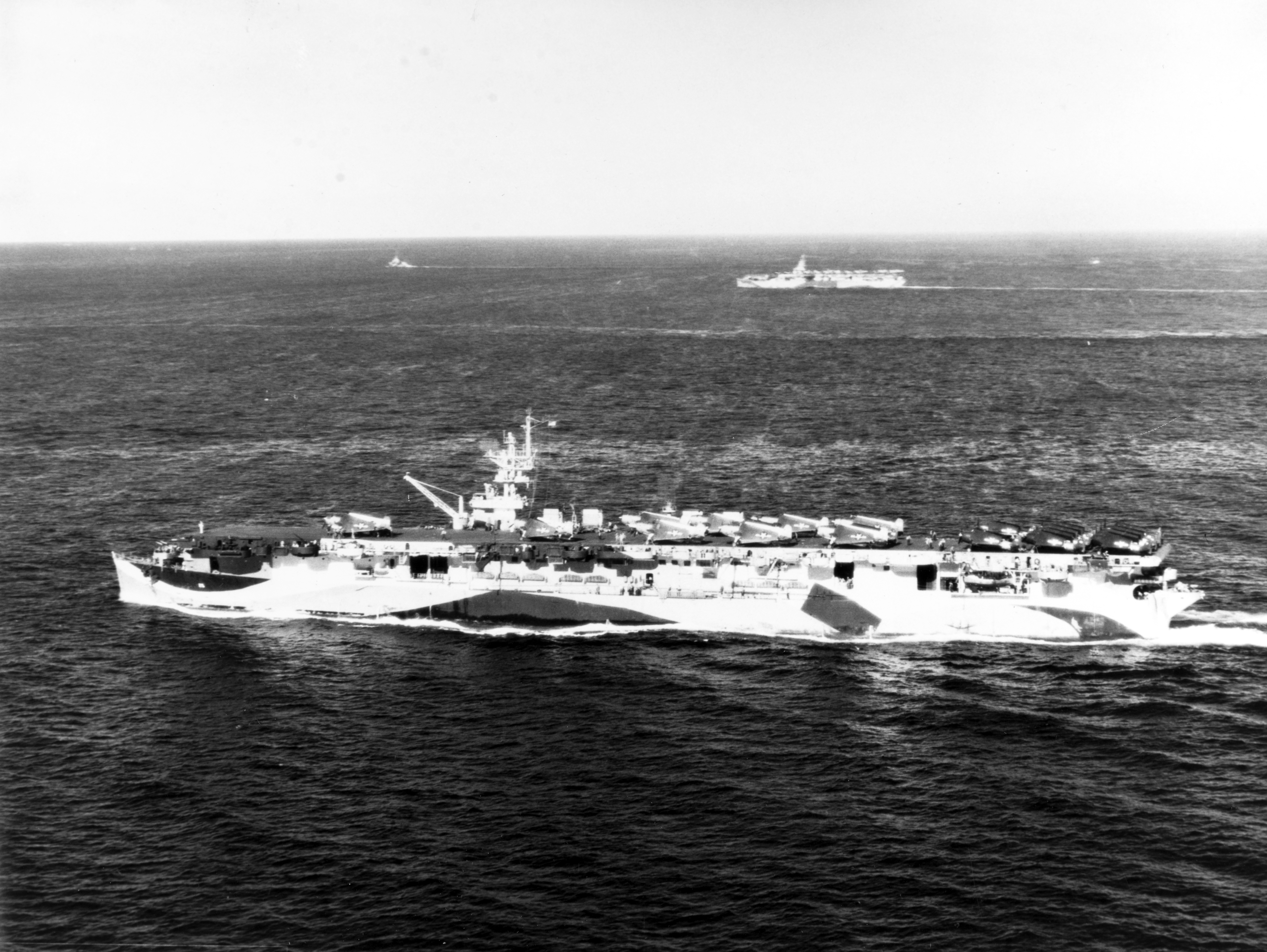 The U.S. Navy light aircraft carrier USS Cowpens (CVL-25) at sea, 31 August 1944. She wears Camouflage Measure 33, Design 7A. USS Independence (CVL-22) is visible in the distance, wearing Measure 32, Design 8A.